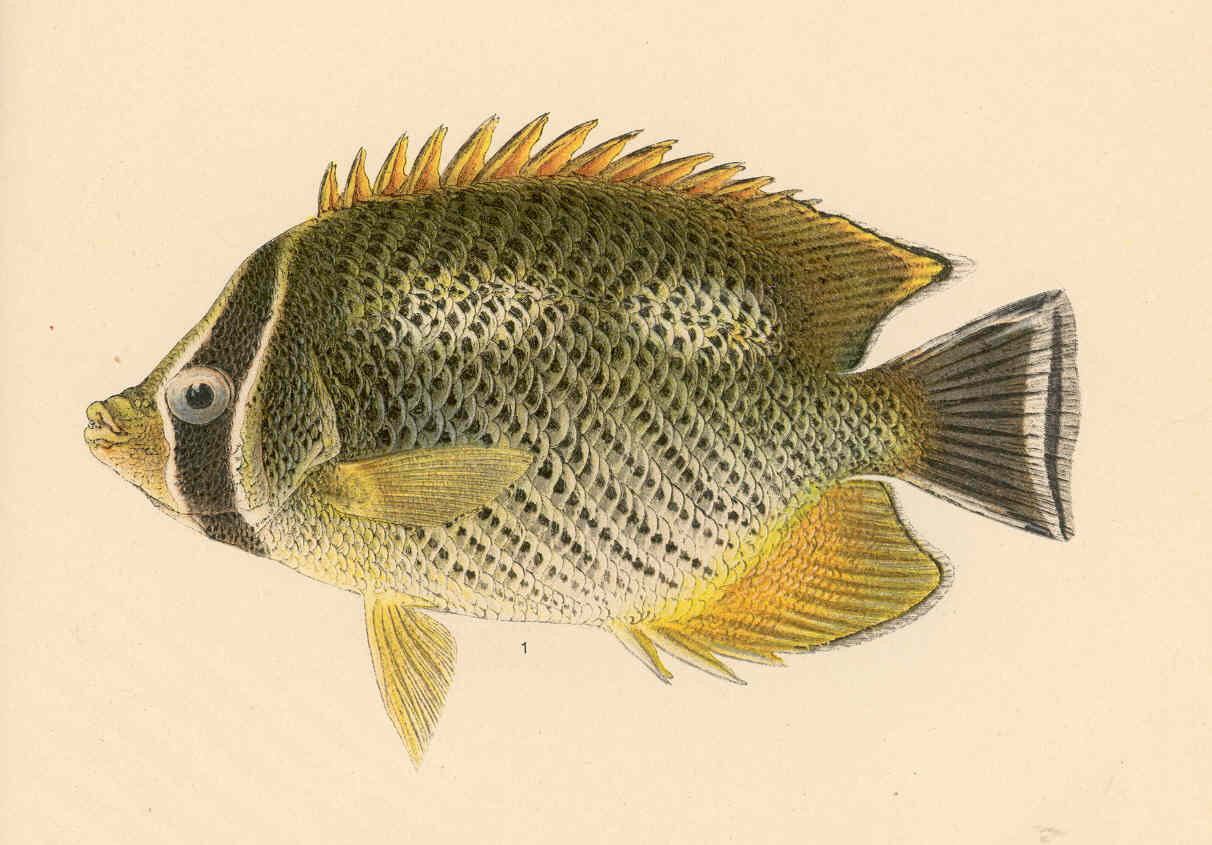 Megaprotodon trifasialis (Quoy & Gaimard) Subject: Megaprotodon, Chaetodontidae Tag: Fish